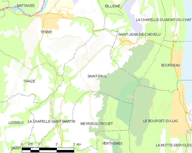 Map of French municipality Saint-Paul